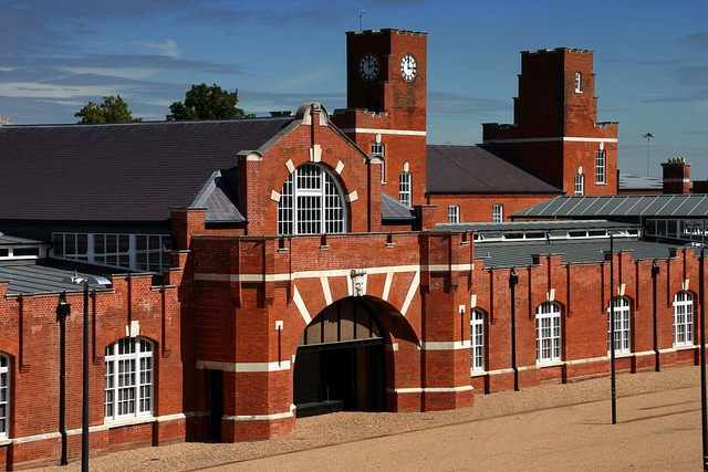 Drill Hall Library